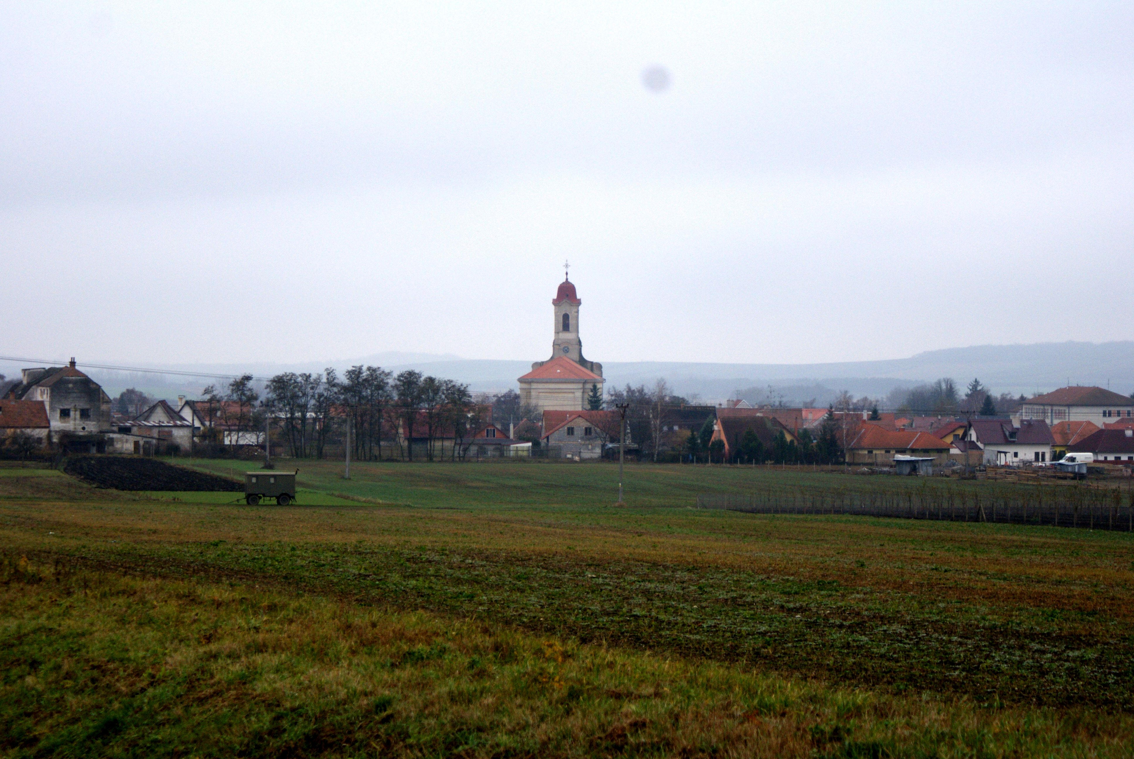 Březí, Moravia, a village in the Břeclav region